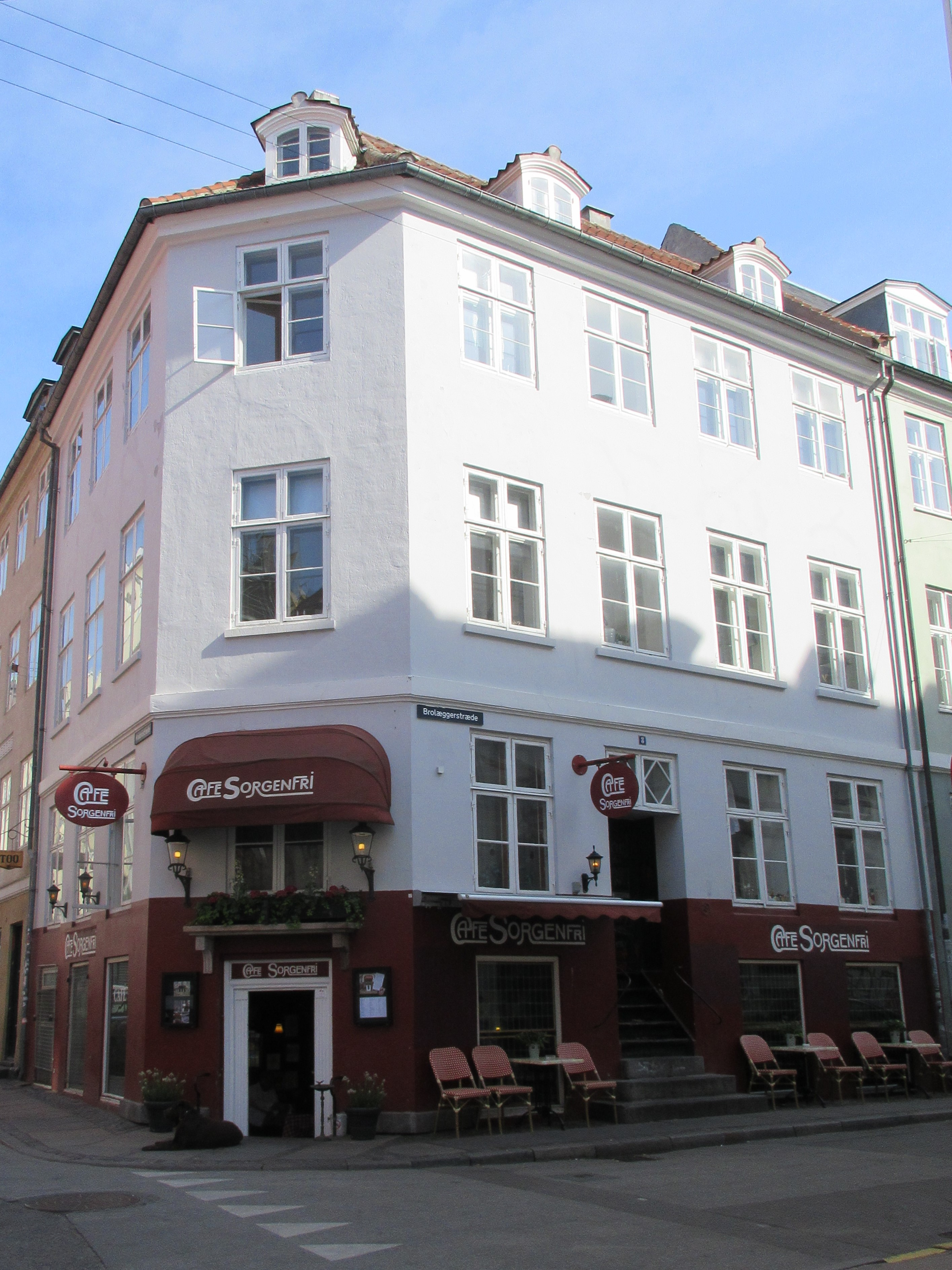 Brolæggerstræde 8 in Copenhagen, Denmark